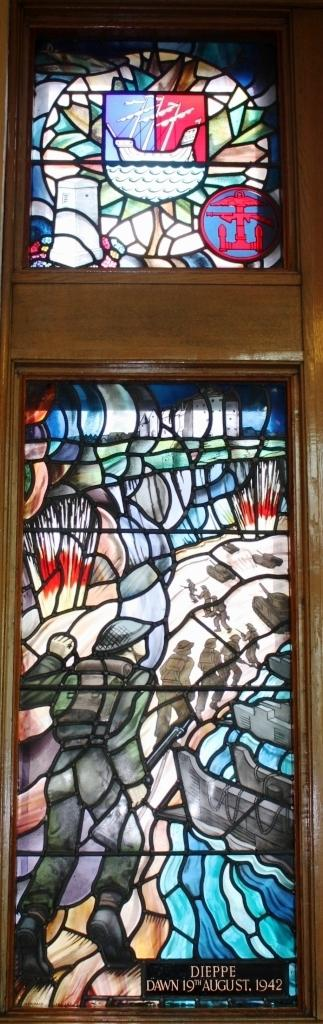 Dieppe Dawn 19 August 1942 stained glass 1967 Currie Hall Royal Military College of Canada. Donated by classes of 1948-52.